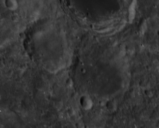 Oblique view of Edison (right of center) and Edison T crater (left of center), on the far side of the moon. North is at top.